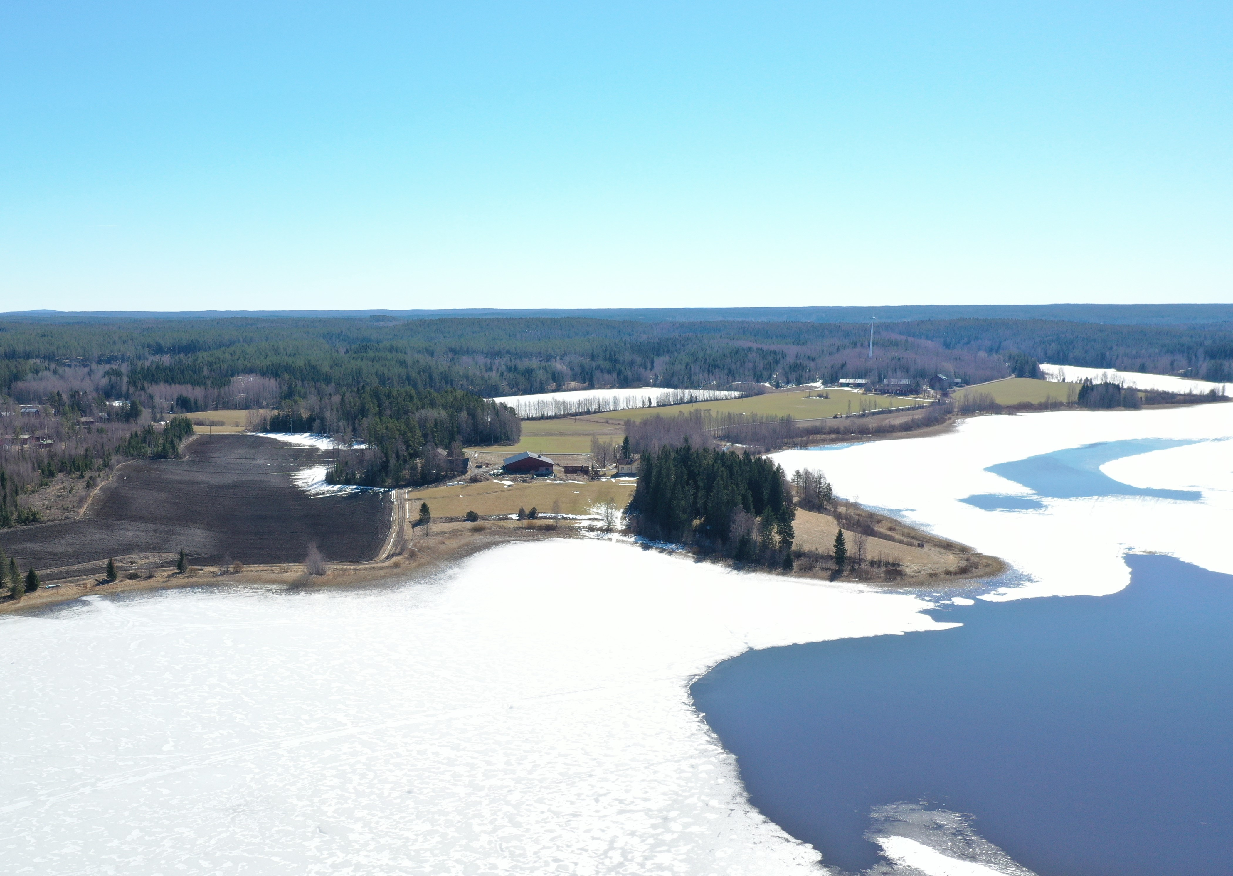 Village of Jalkavala in Suodenniemi, Finland